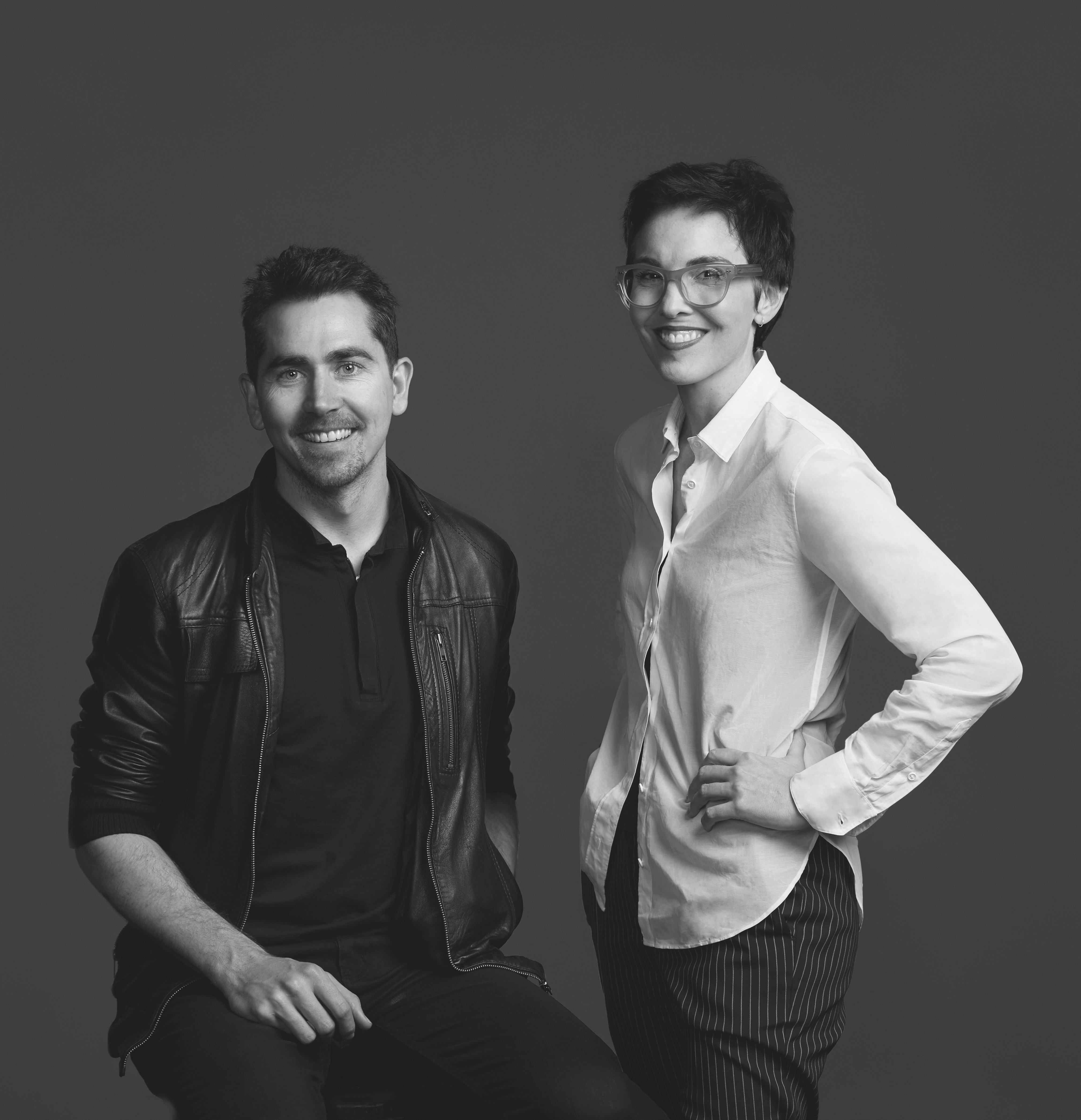 Photograph of Artistic Director & Co-CEO Matthew Lutton and Executive Producer & Co-CEO Sarah Neal